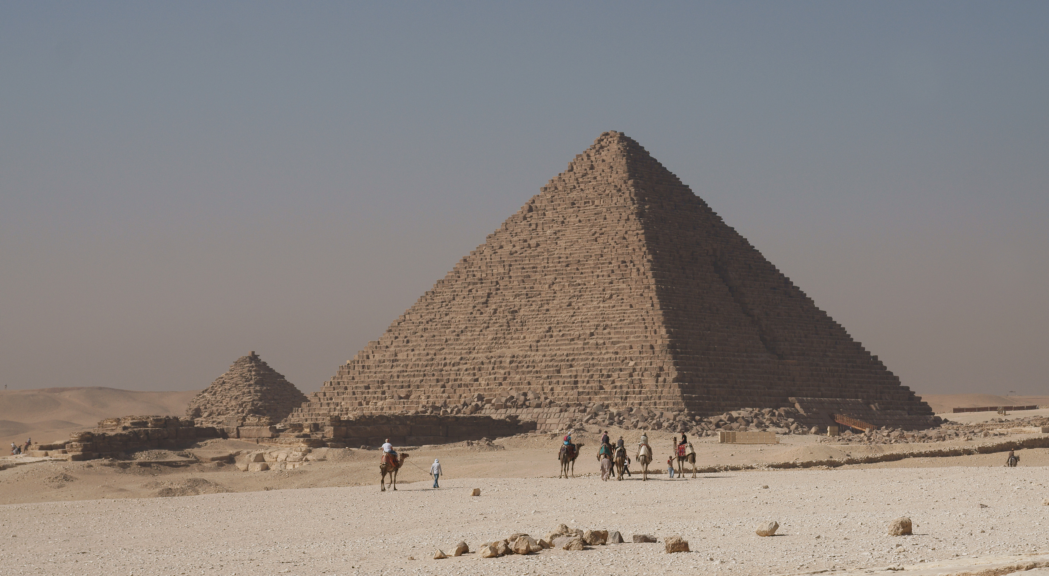 Menkaure's Pyramid in Giza.